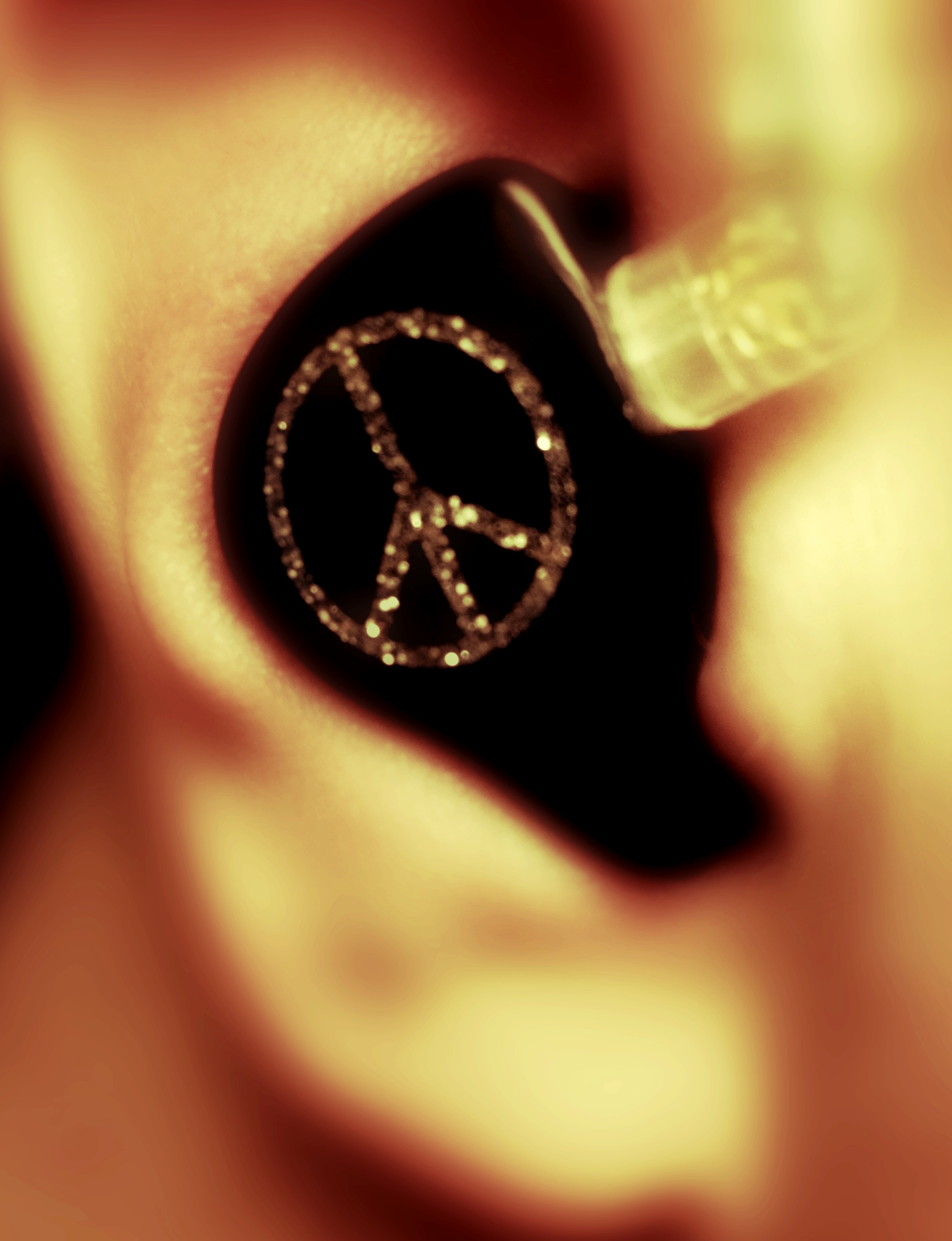 Ultimate Ears 7 Pro Custom In-Ear Monitors